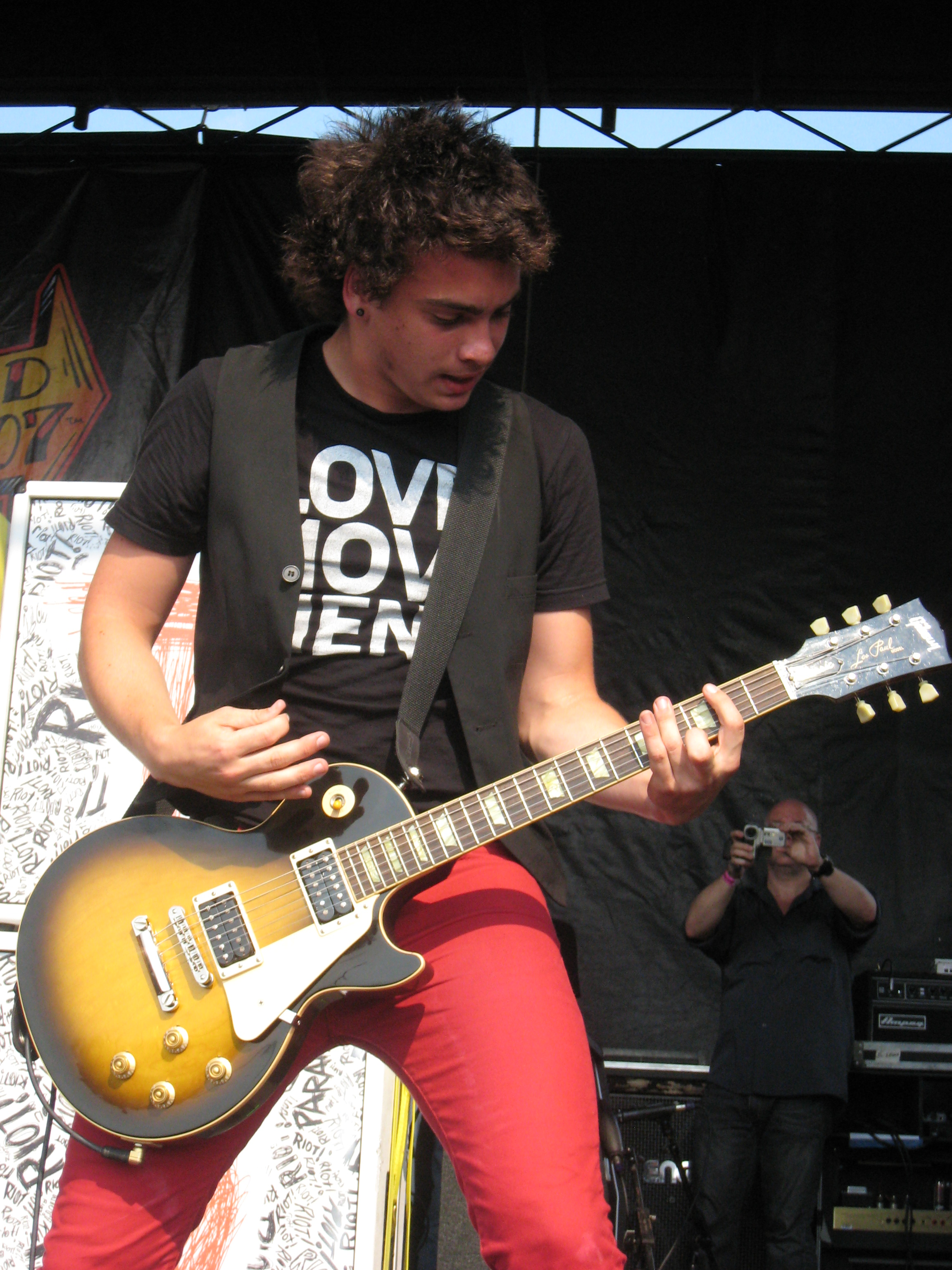 Paramore Taylor York01.jpg Taylor York, rhythm guitarist for Paramore, playing at the Van's Warped Tour, 2007 in Tweeter Center at the Waterfront in Camden, NJ.